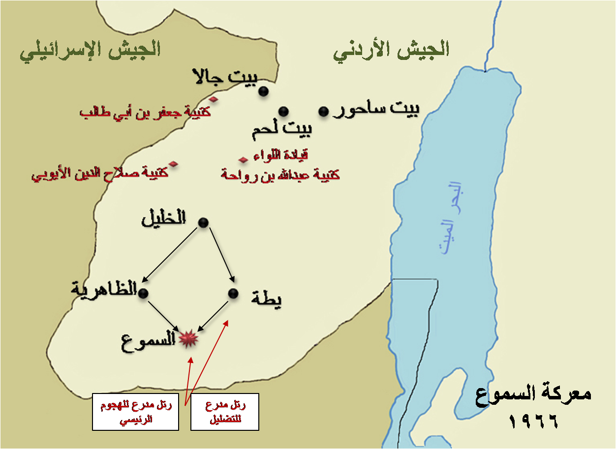 Map for the battle of Samou in 1966.